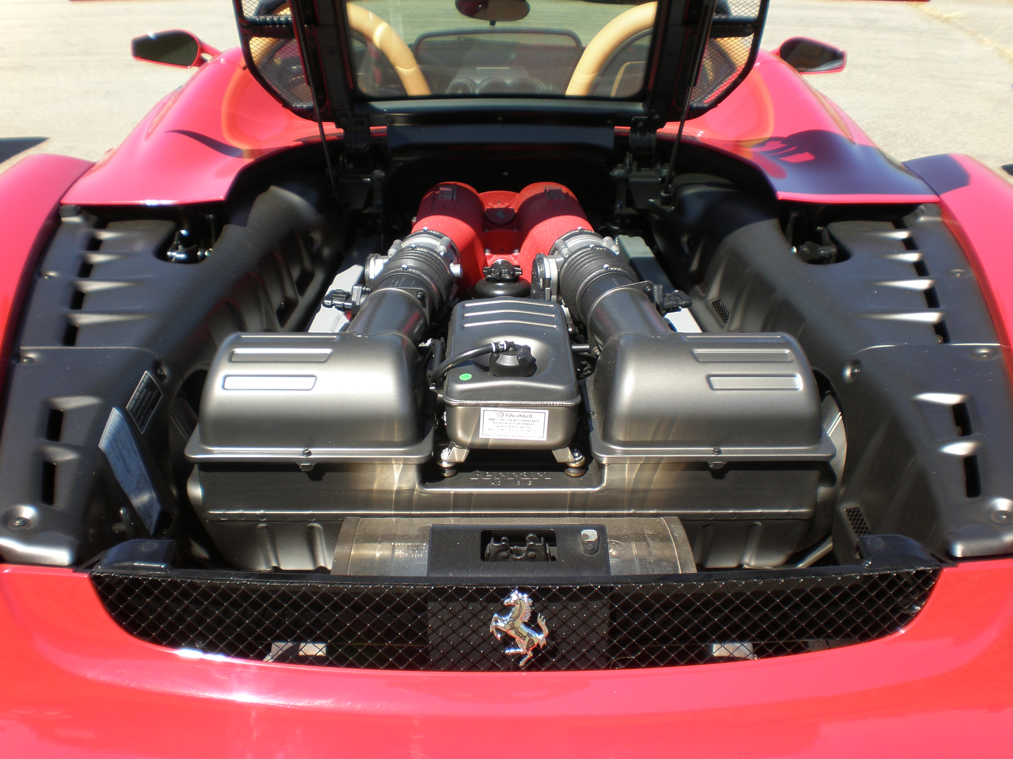 The engine of a Ferrari F430 Spider with the hood open at the Pacific Coast Dream Machines vehicle show at the Half Moon Bay Airport in Half Moon Bay, California.